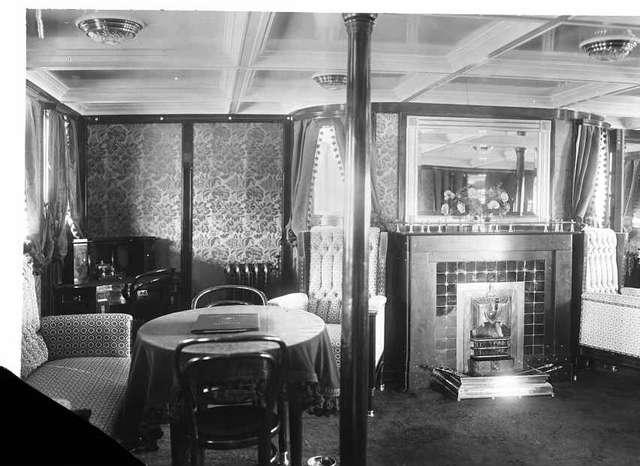 Lounge in Norwegian passenger ship DS Haakon VII, built in 1907.